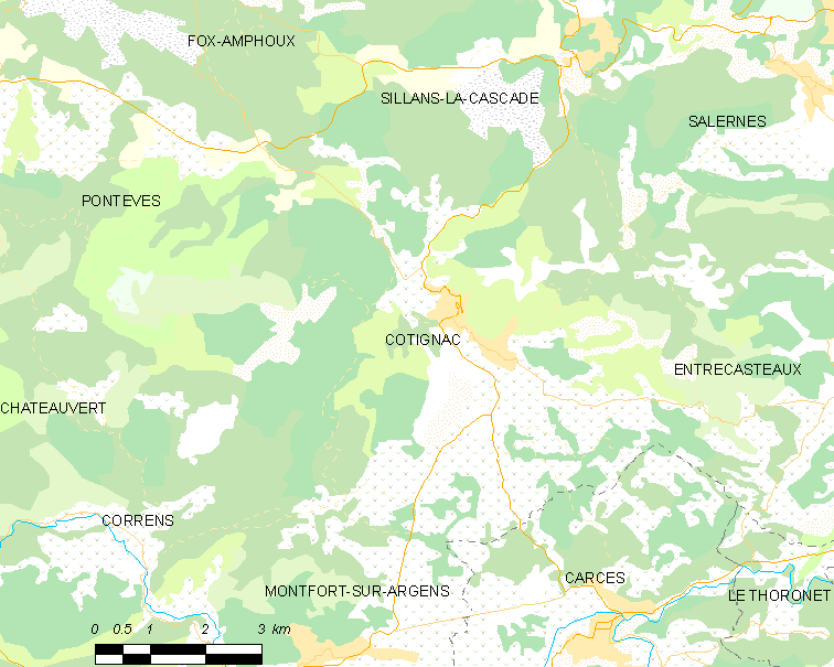 Map of French municipality Cotignac